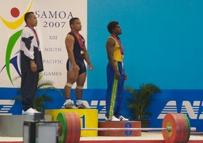 Manuel Minginfel at the XIII South Pacific games